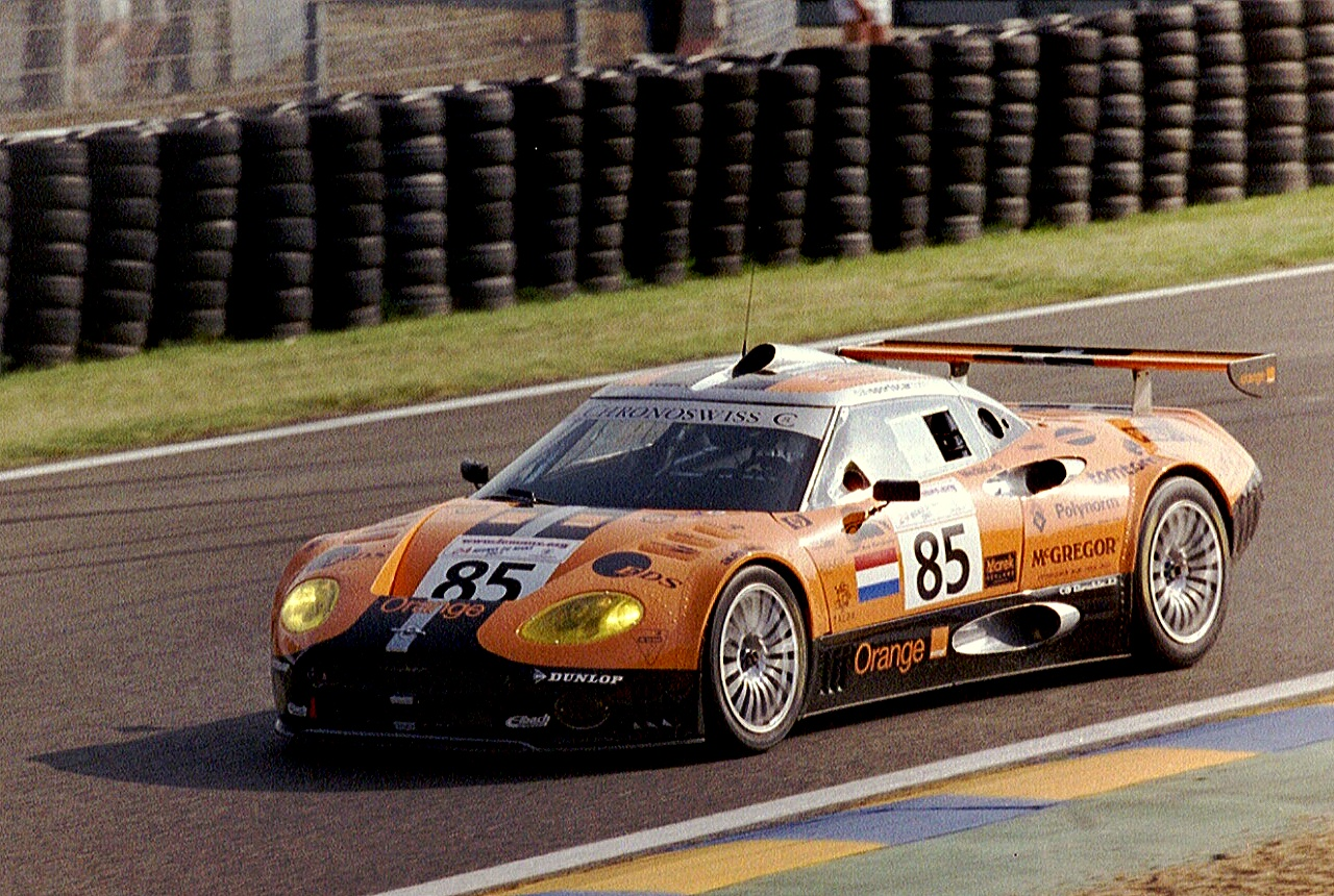 Spyker C8 Double 12R driven by Norma Simon, Tom Coronel & Hans Hugenholtz Junior approaches Dunlop Bridge 2003 24 Hours of Le Mans